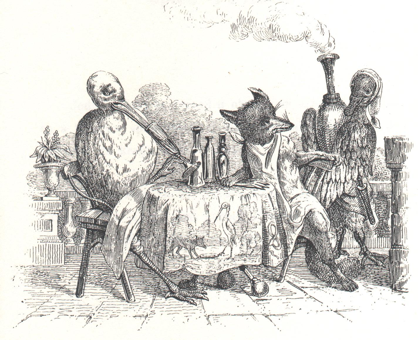 Illustration (litography) of Adalbert Lauppert Peharnik for the book of Ignatije Čivić Rohrski: "Basne i kratke pripovijesti iz raznih klasnih pisaca", Karlovac, 1844., p. 357 (fable: The Fox and the Stork)